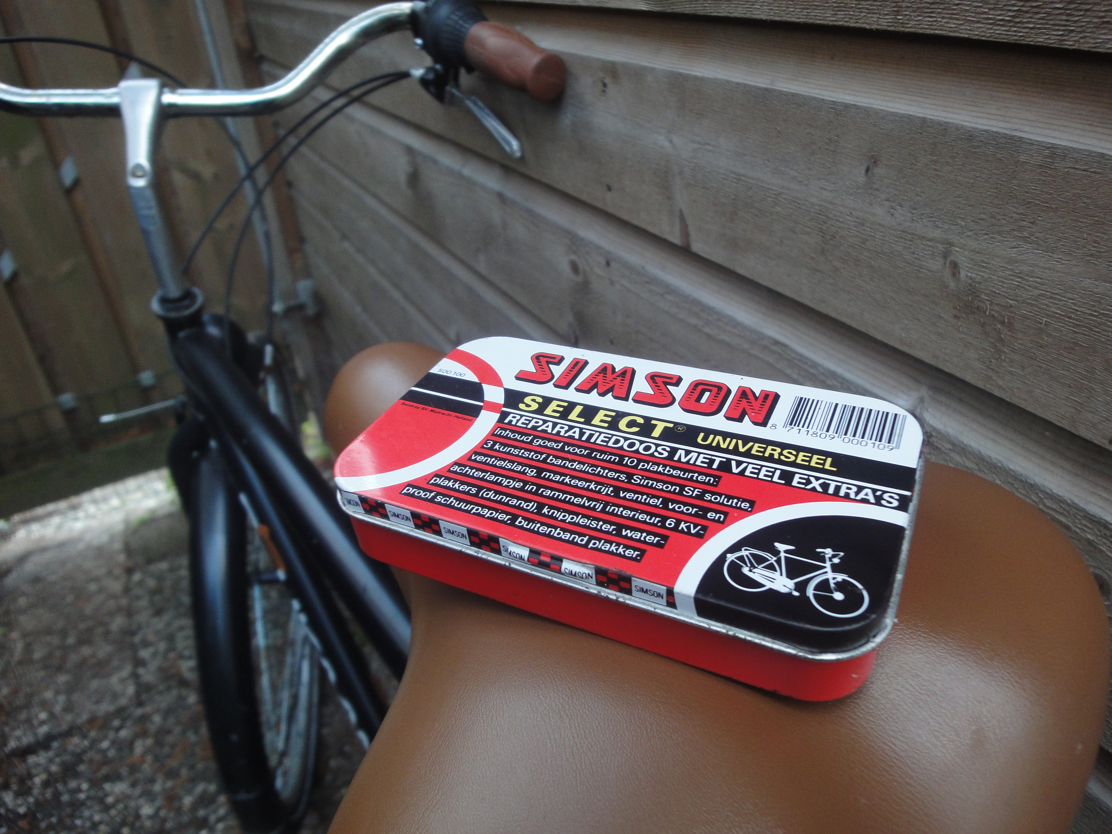 Simson bicycle repair kit